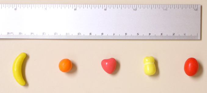 Digital photograph of banana, orange, strawberry, pineapple, and mango Runts candy.